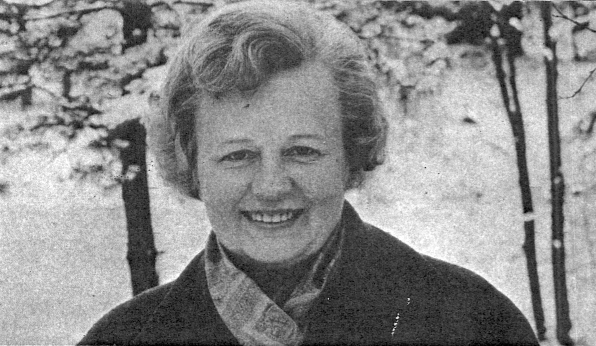 Photograph of the Finnish writer and translator Eila Pennanen (1916–1994).